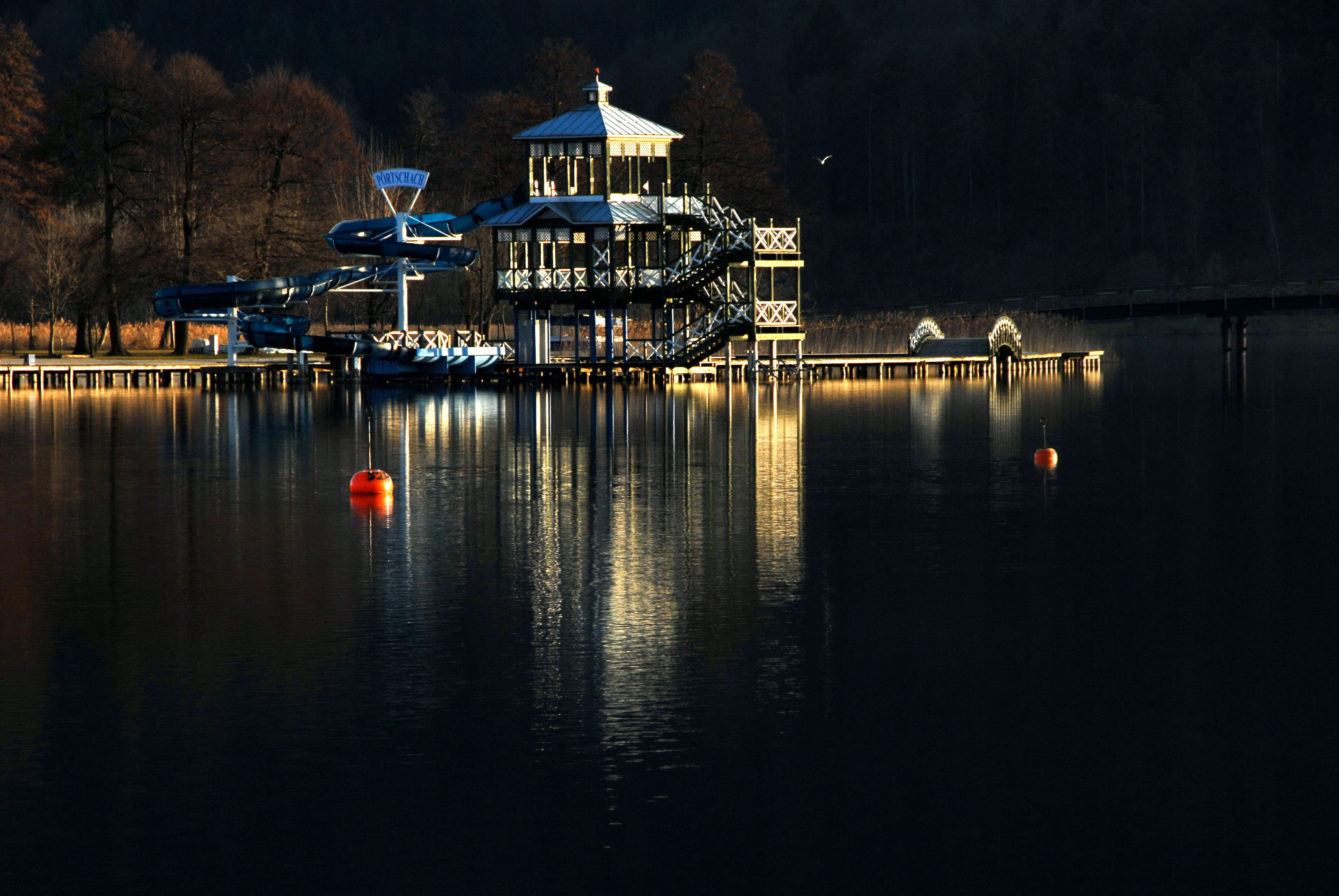 Hibernal lido on the Johannes-Brahms-Promenade, municipality Poertschach on the Lake Woerth, district Klagenfurt Land, Carinthia, Austria, EU